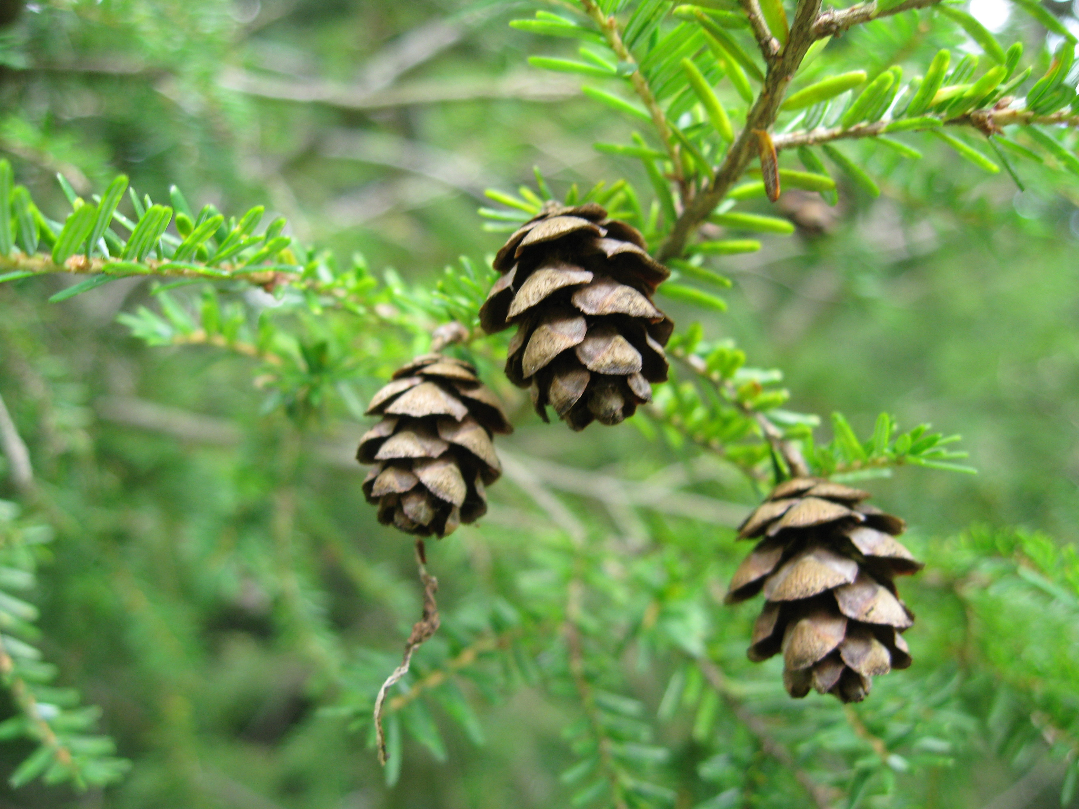 Tsuga canadensis foliage and cones. Penny Brook Farm, Vermont.